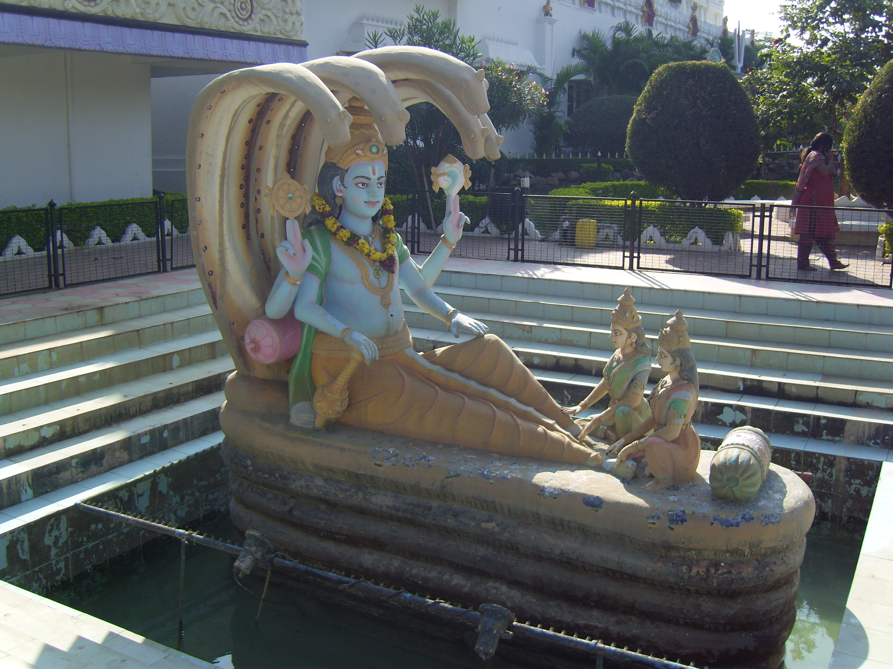 Ratnalayam Venkateswara Temple